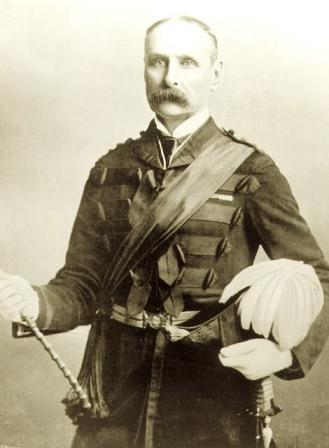 Portrait of Sir Charles Tucker. Official War Office Photograph. Pre-1955 so in the public domain.